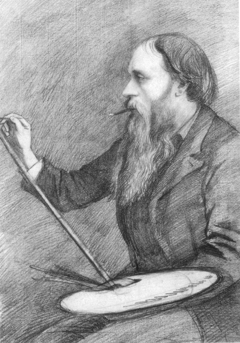 Drawing of Edward Burne-Jones by George Howard, 9th Earl of Carlisle.